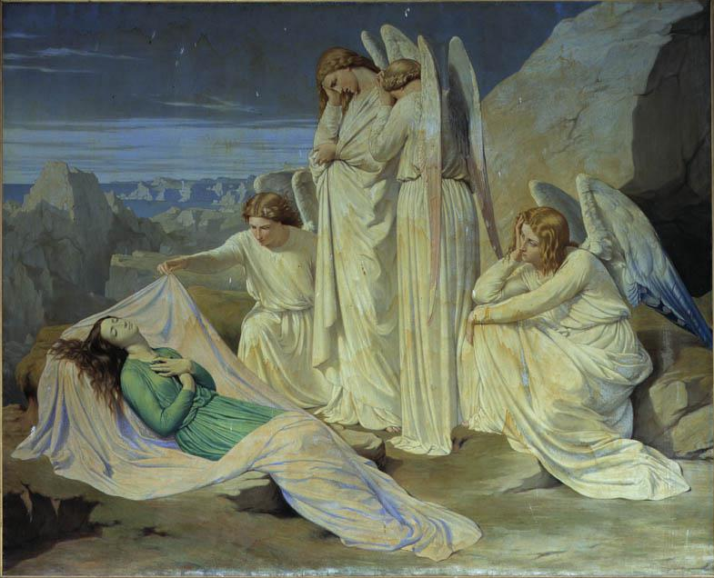 La Mort de sainte Catherine d'Alexandrie, oil on canvas, dim.: 225,5 x 348 cm. Located in Église paroissiale Saint-Ursmer (Eppe-Sauvage, 59). Signed and date in red, down left : WH - 1859 [?] La Mort de sainte Catherine d'Alexandrie de William Haussoullier est un envoi de l'Etat à l'église Saint-Ursmer d'Eppe-Sauvage en 1881. Elle a été commandée à l'artiste en 1858. Une date portée (1859 ?) est difficilement lisible en bas à gauche. En 1870, l'œuvre était initialement destinée à l'église Saint-Léonard de Fougères.